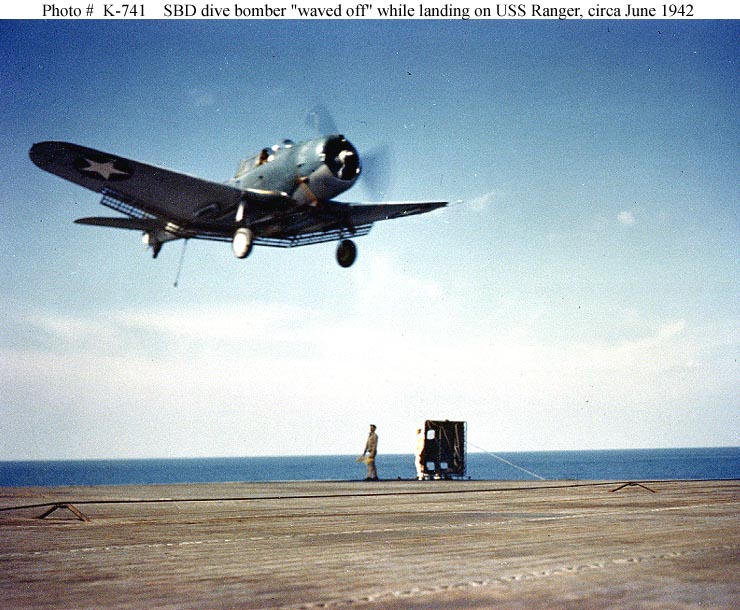 Douglas SBD Dauntless goes around for another landing attempt, after being "waved off" by the Landing Signal Officer on USS Ranger (CV-4), circa June 1942.